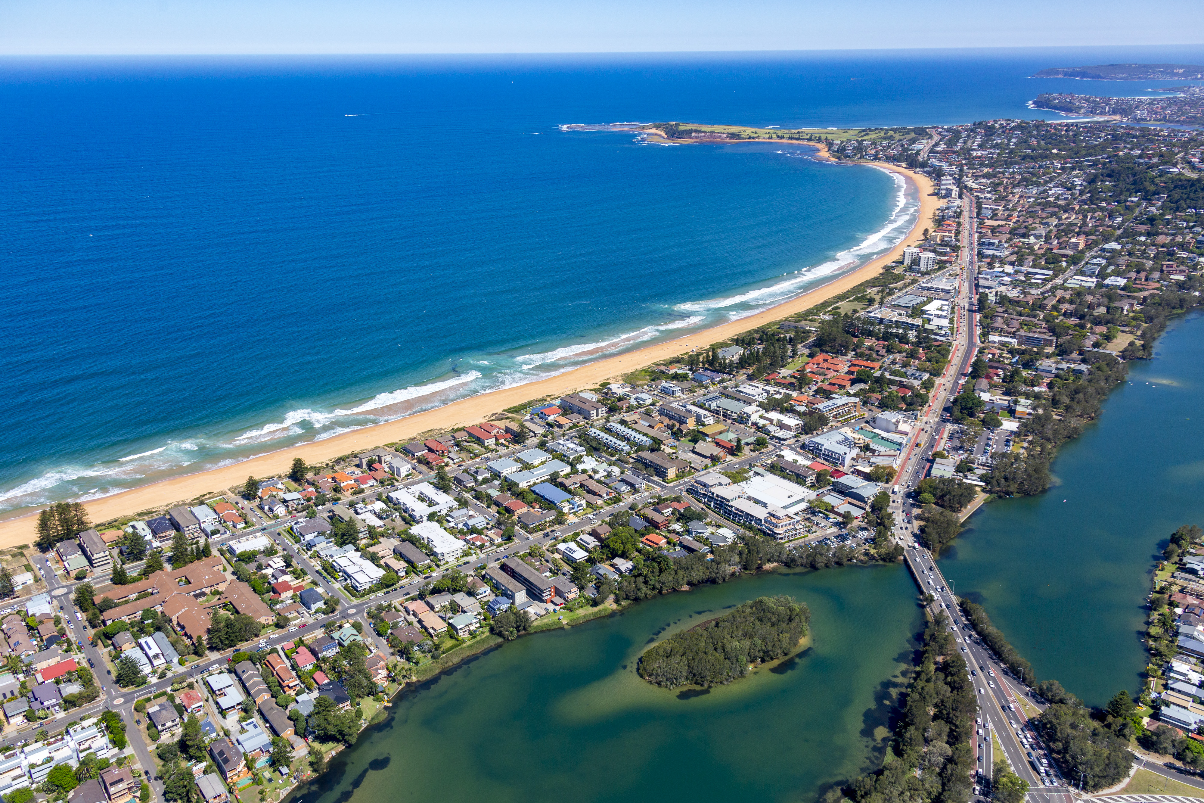 An aerial photo of Narrabeen from the north west. Looking down Pittwater Road to Collaroy and Long Reef.